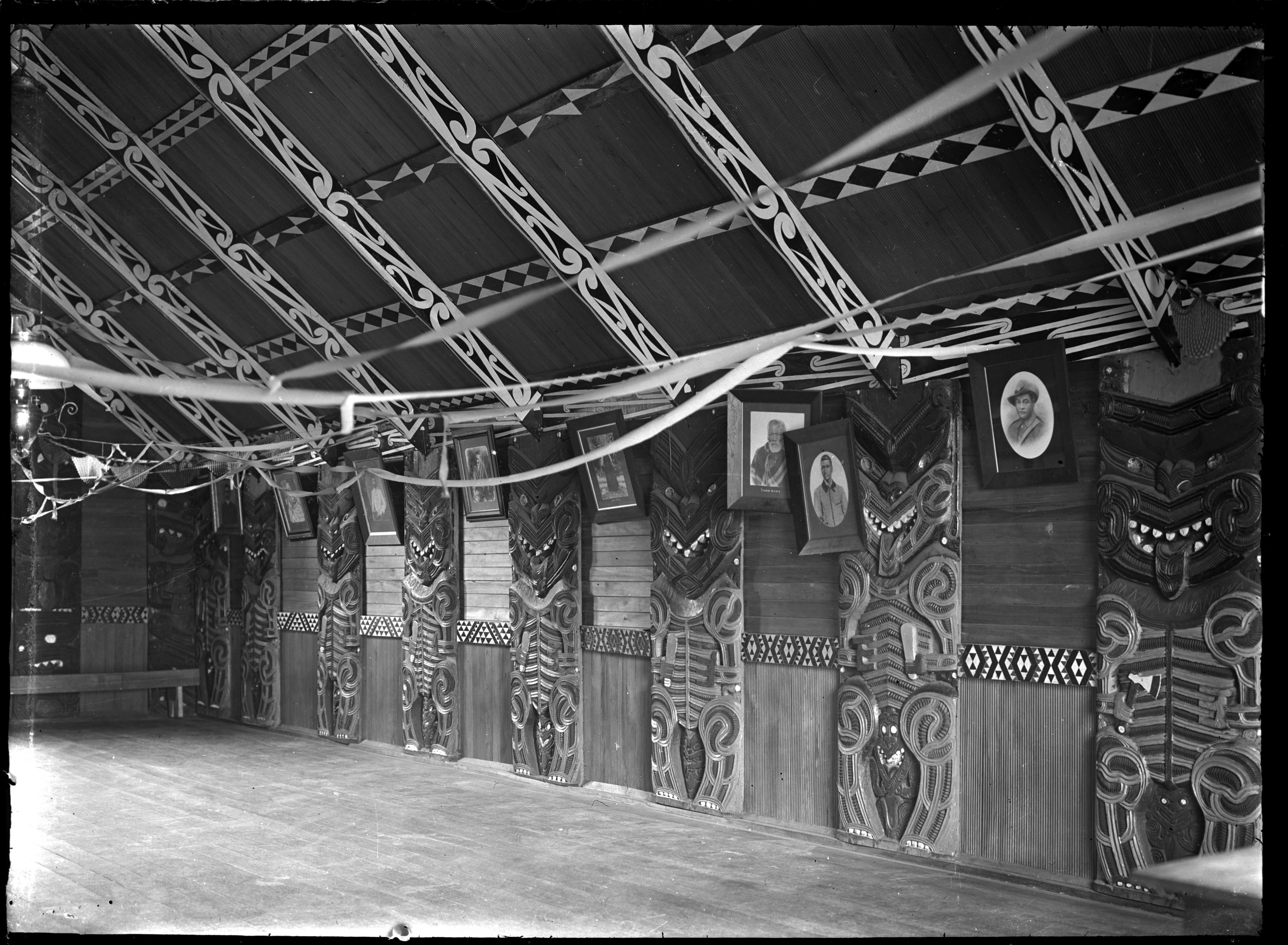 Interior view of Hinenuitepo meeting house at Te Whaiti. There are streamers across the ceiling, and photographs all along the walls. Photograph taken by Albert Percy Godber in October 1930.